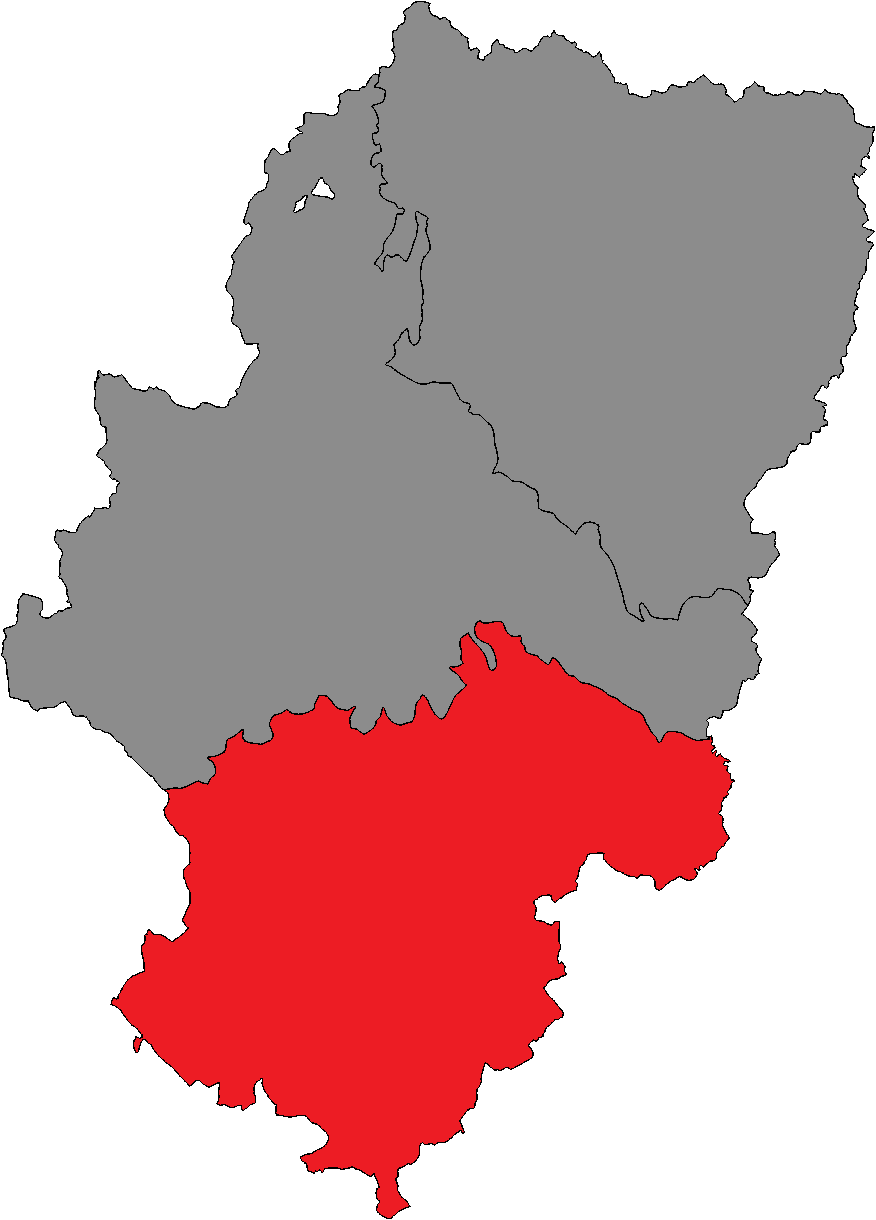 Aragonese Cortes district of Teruel.